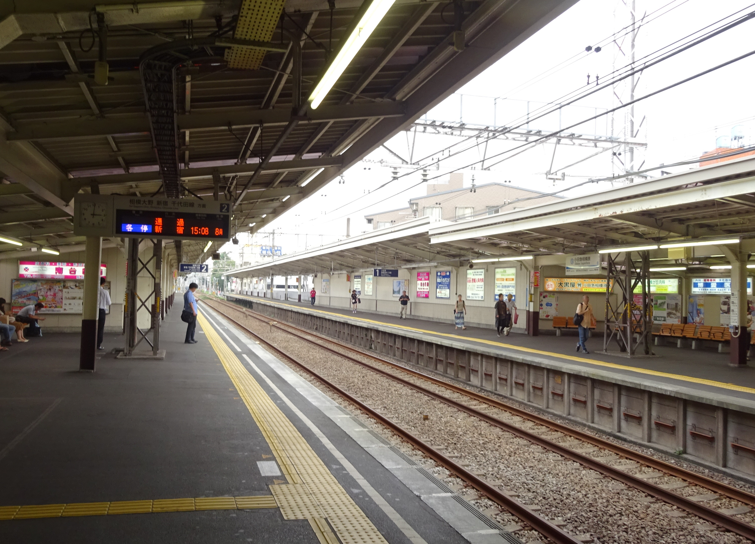 Platforms of Odakyū-Sagamihara Station